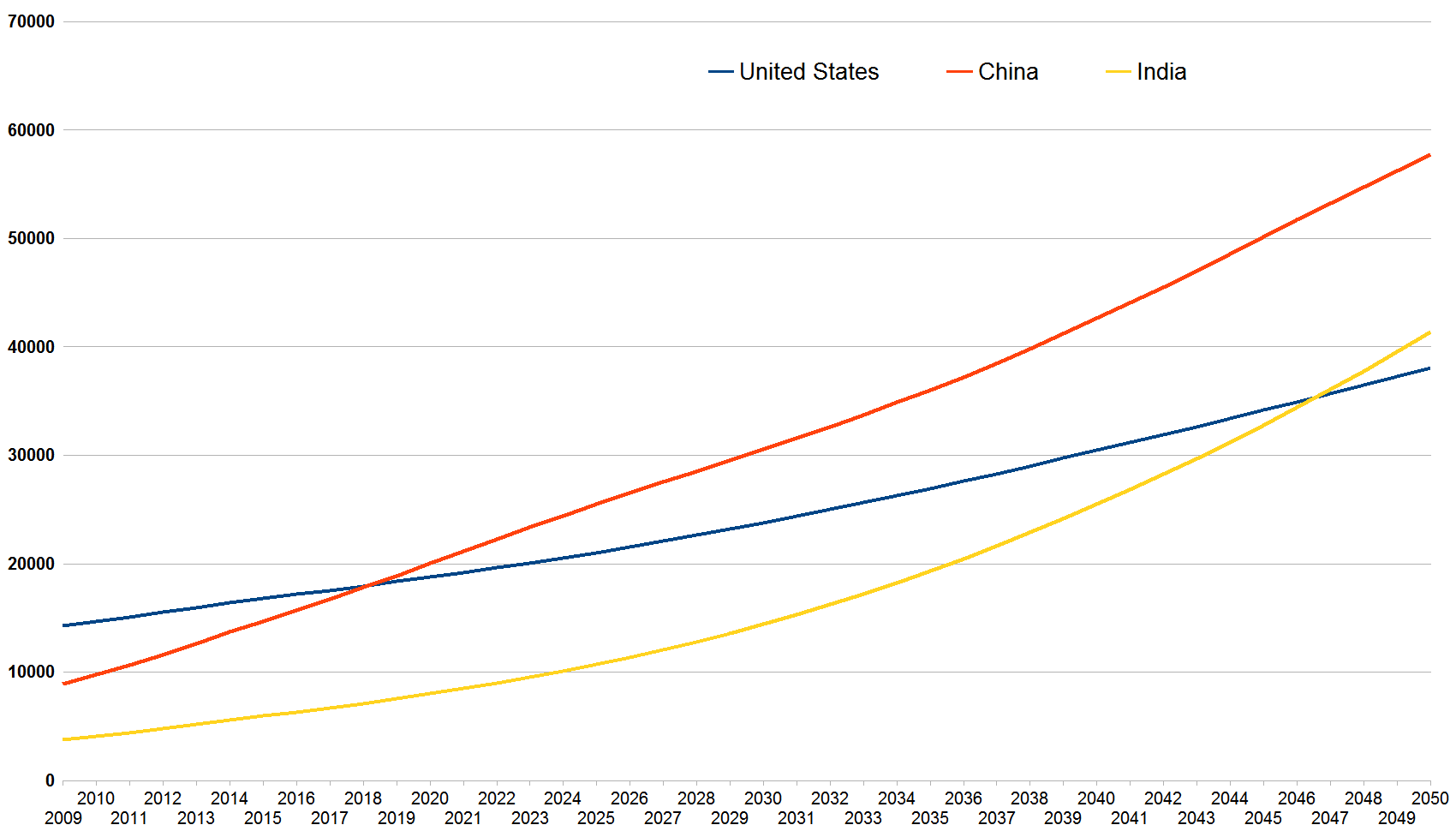 The Projected economies of United States, China and India between 2009-2050 by PwC.Based on PPP